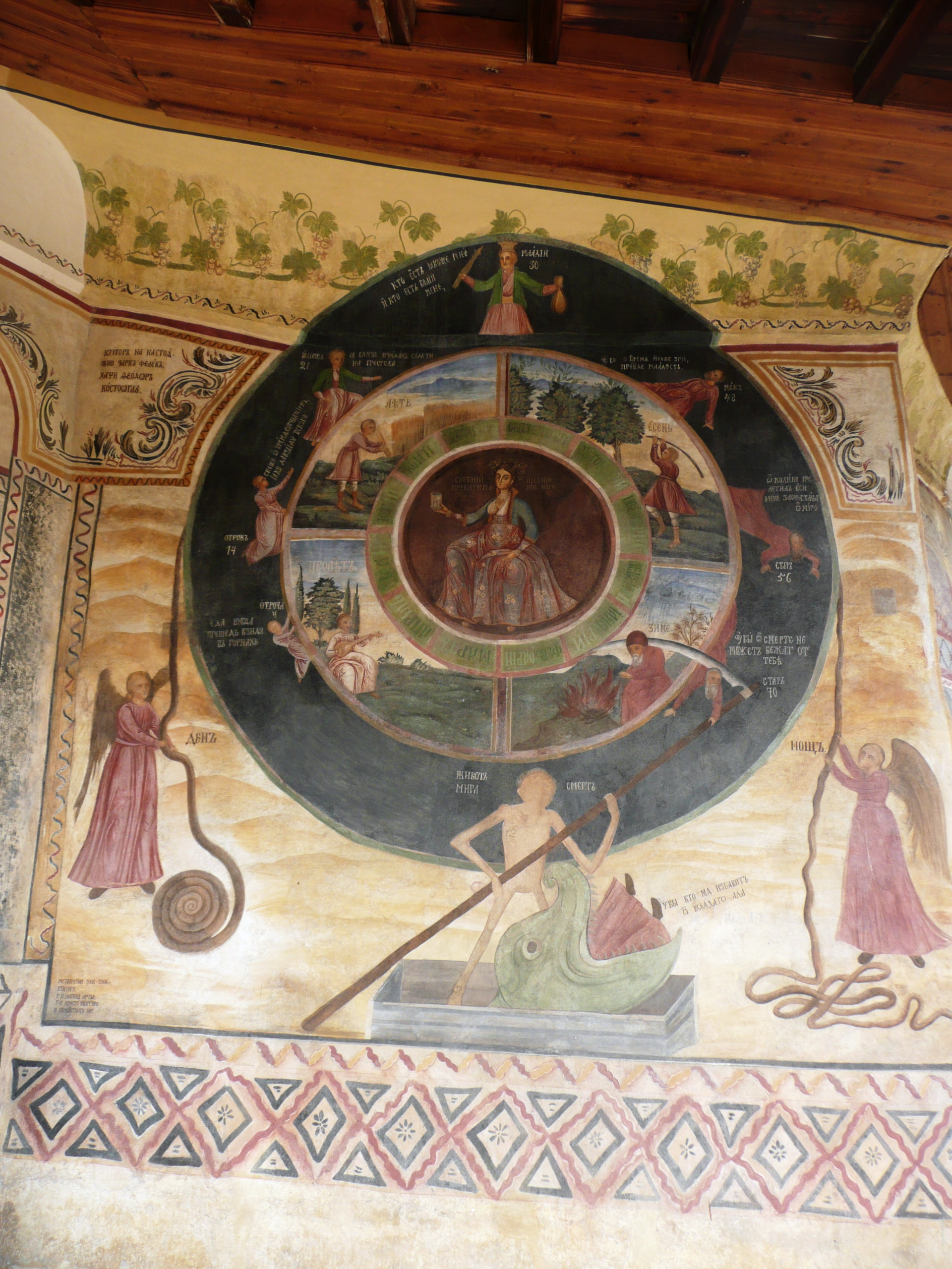 Zahari Zograf's fresco 'The circle of life' (ca 1850), Transfiguration Monastery, near Veliko Tarnovo in Bulgaria